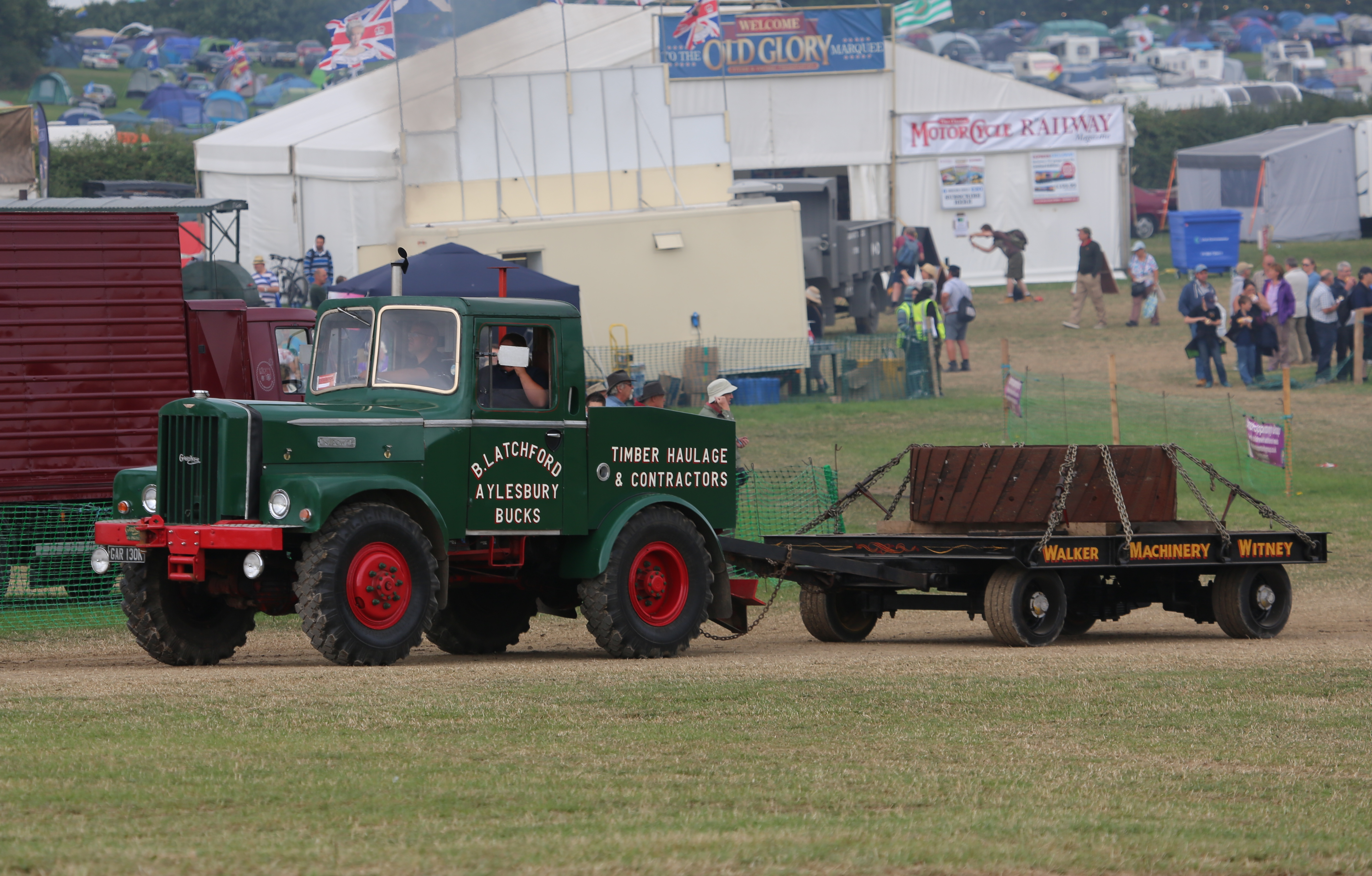 Photo of a 1956 Unipower Hannibal Timber Tractor demainstraiting towing at the Great Dorset Steam Fair.